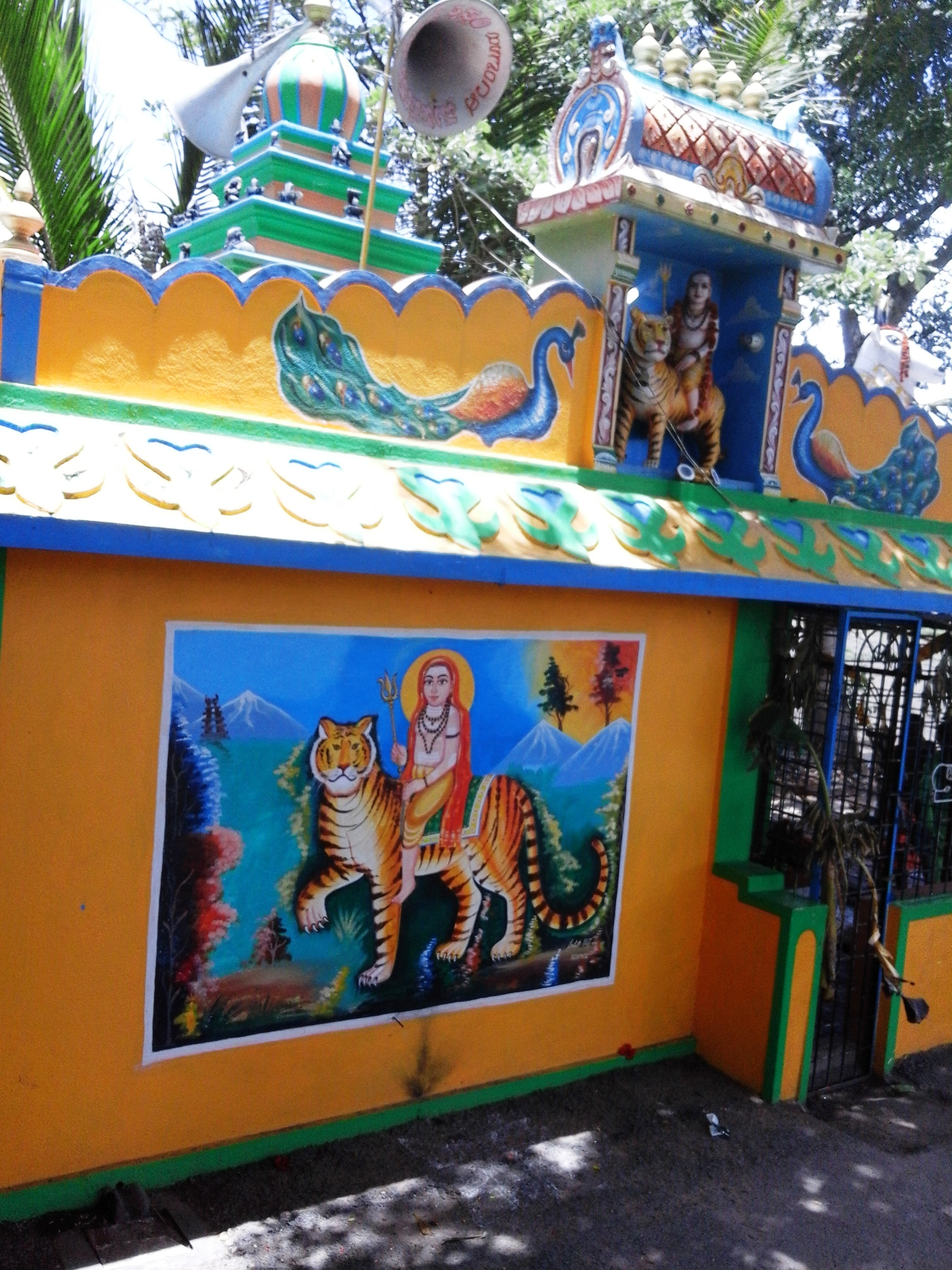 Nanjangud to T.Narasipura Road, Mysore district, Karnataka state, India.